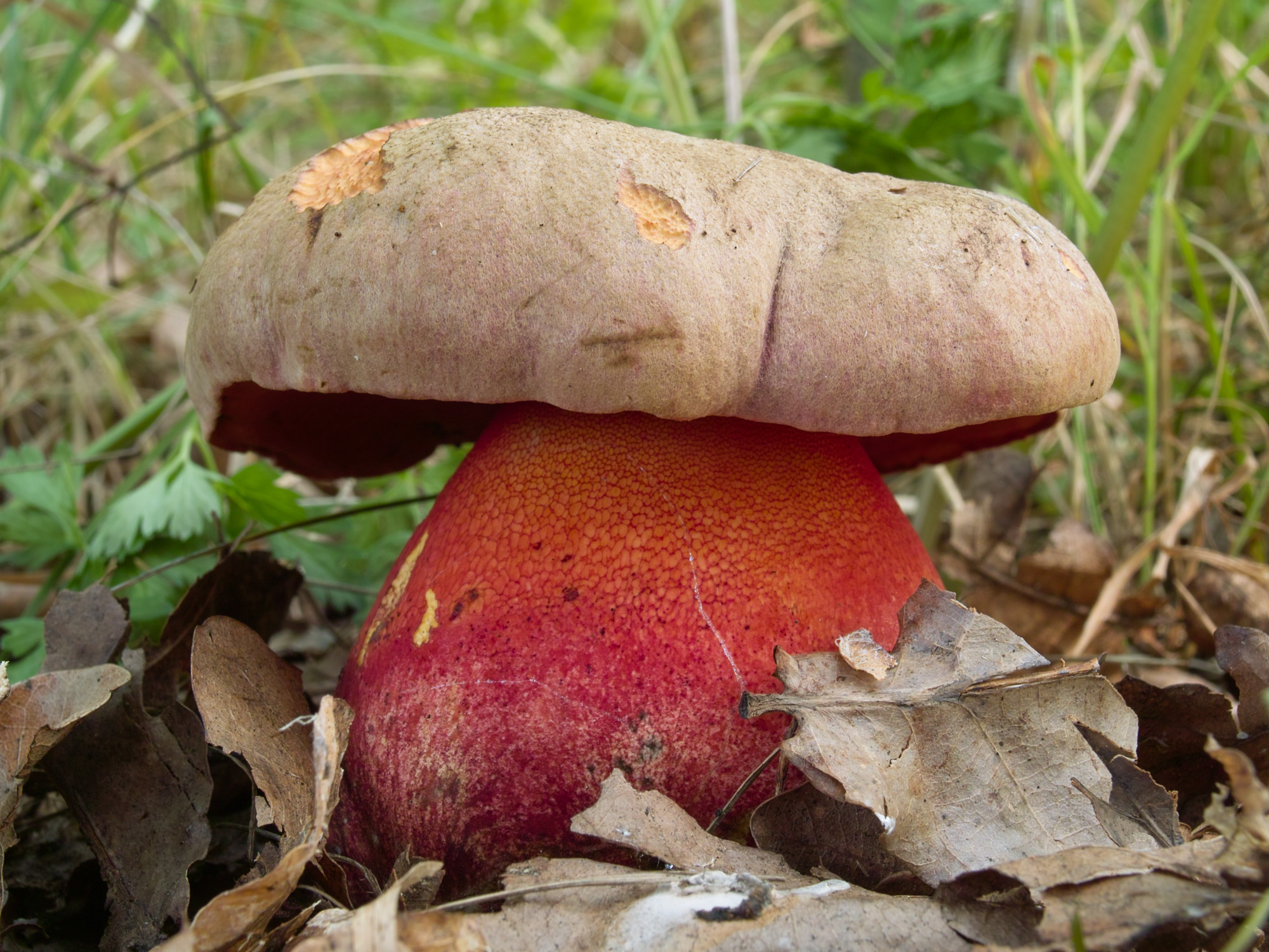 Boletus legaliae, Luční, Czech Republic